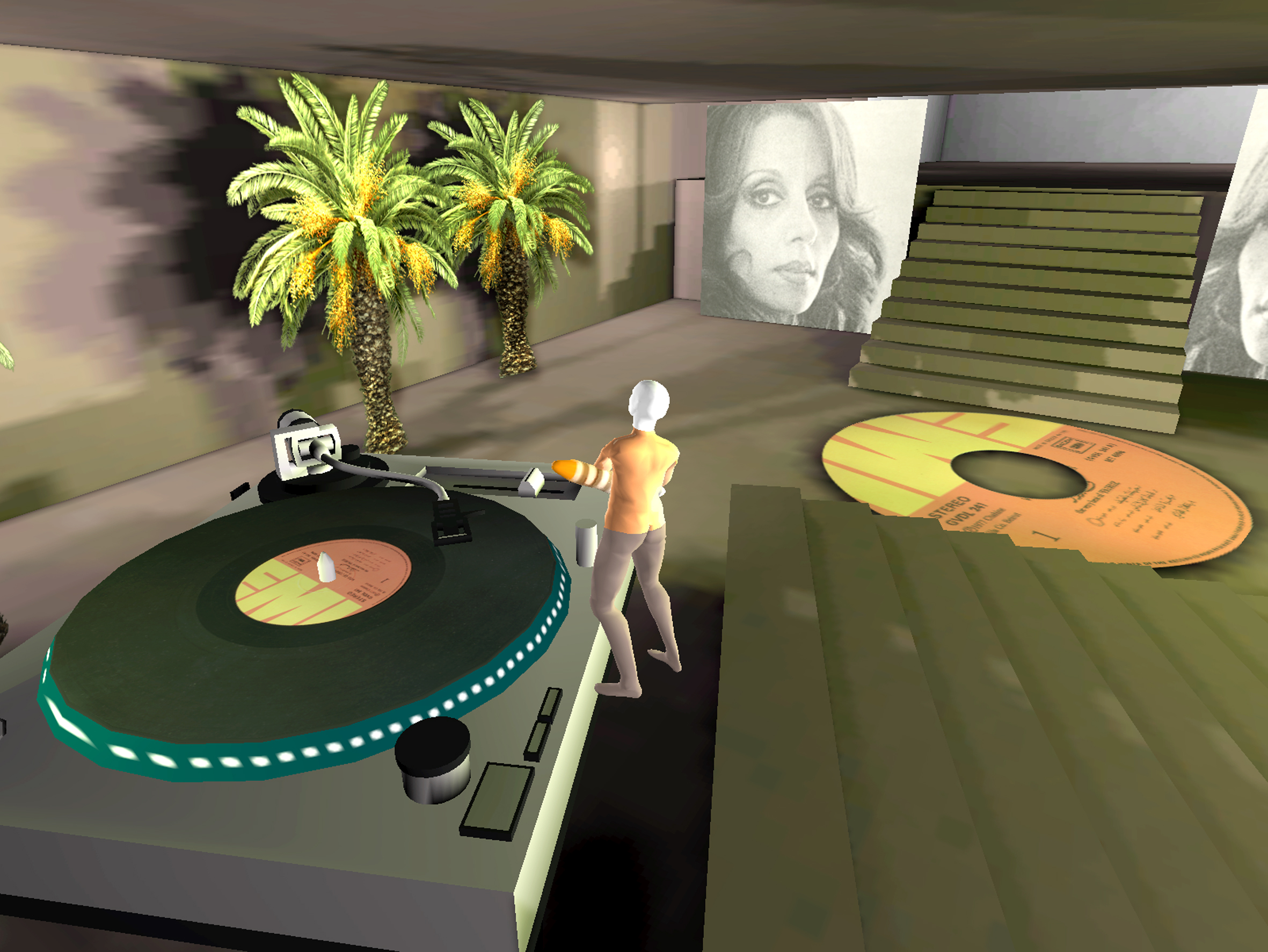 This is a screenshot from the art game "postvinyl", created by Mathias Fuchs. The game has been shown at various festivals like futuresonic Manchester 2004, resfest Vienna 2005, mediaterra Athens 2006.